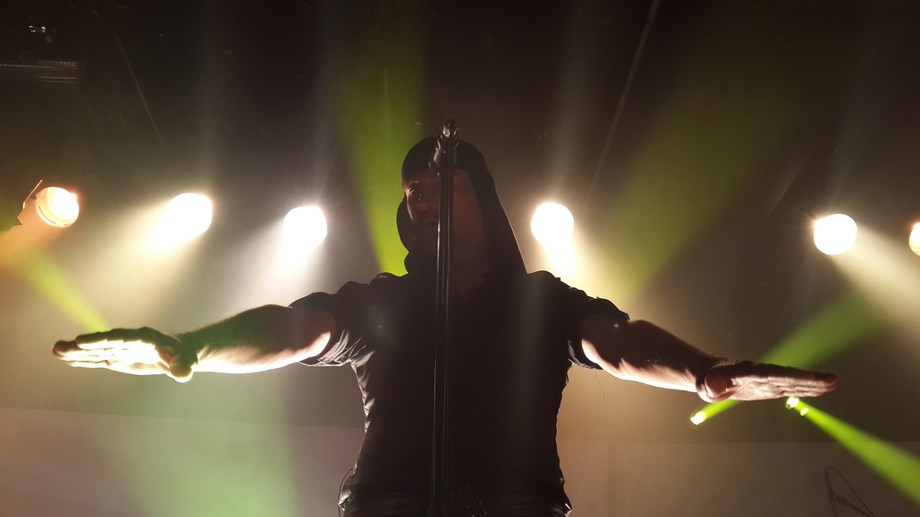 Laibach Live in Budapest, Hungary, April 2014